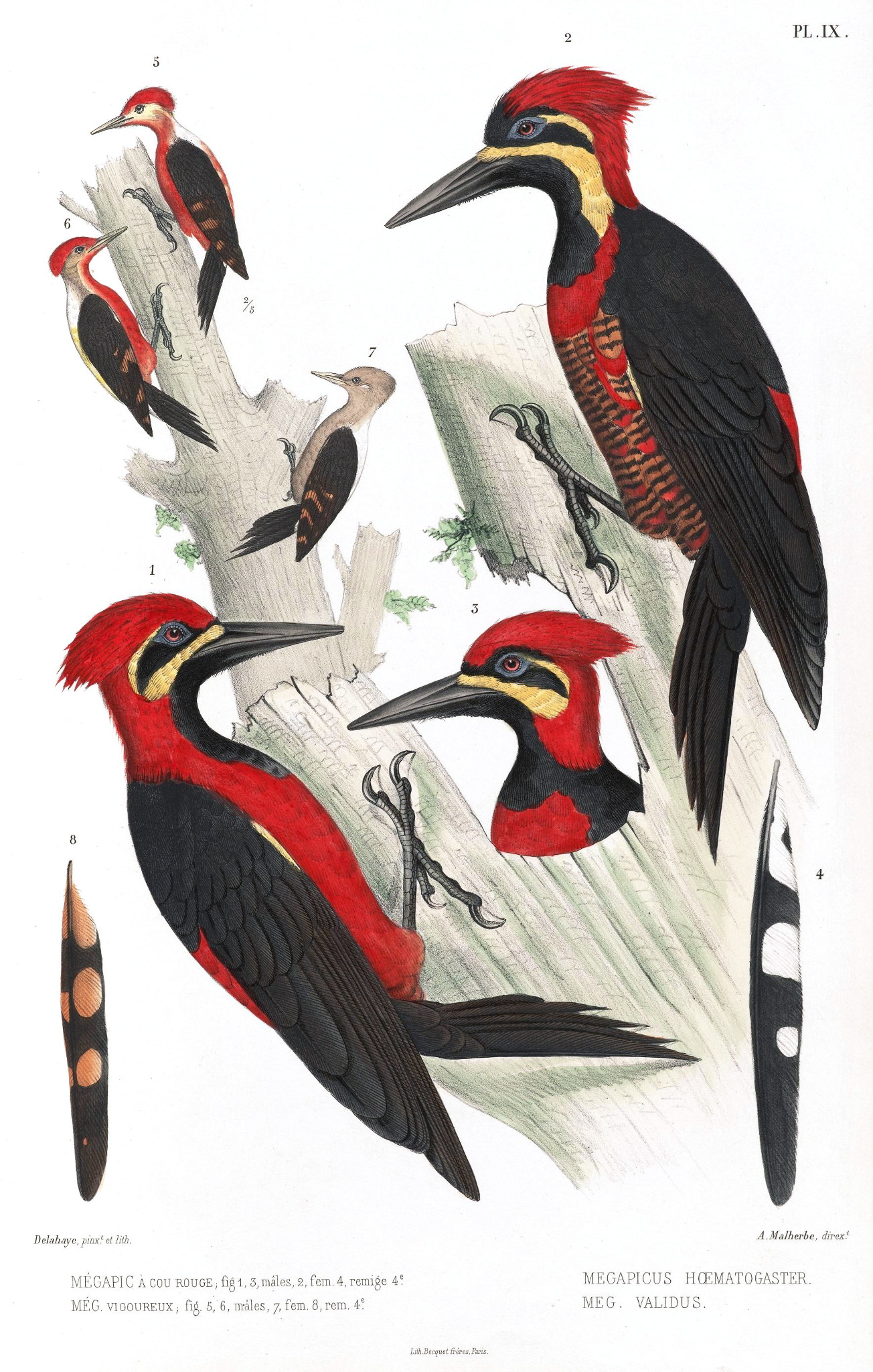 Crimson-bellied Woodpecker, Campephilus haematogaster